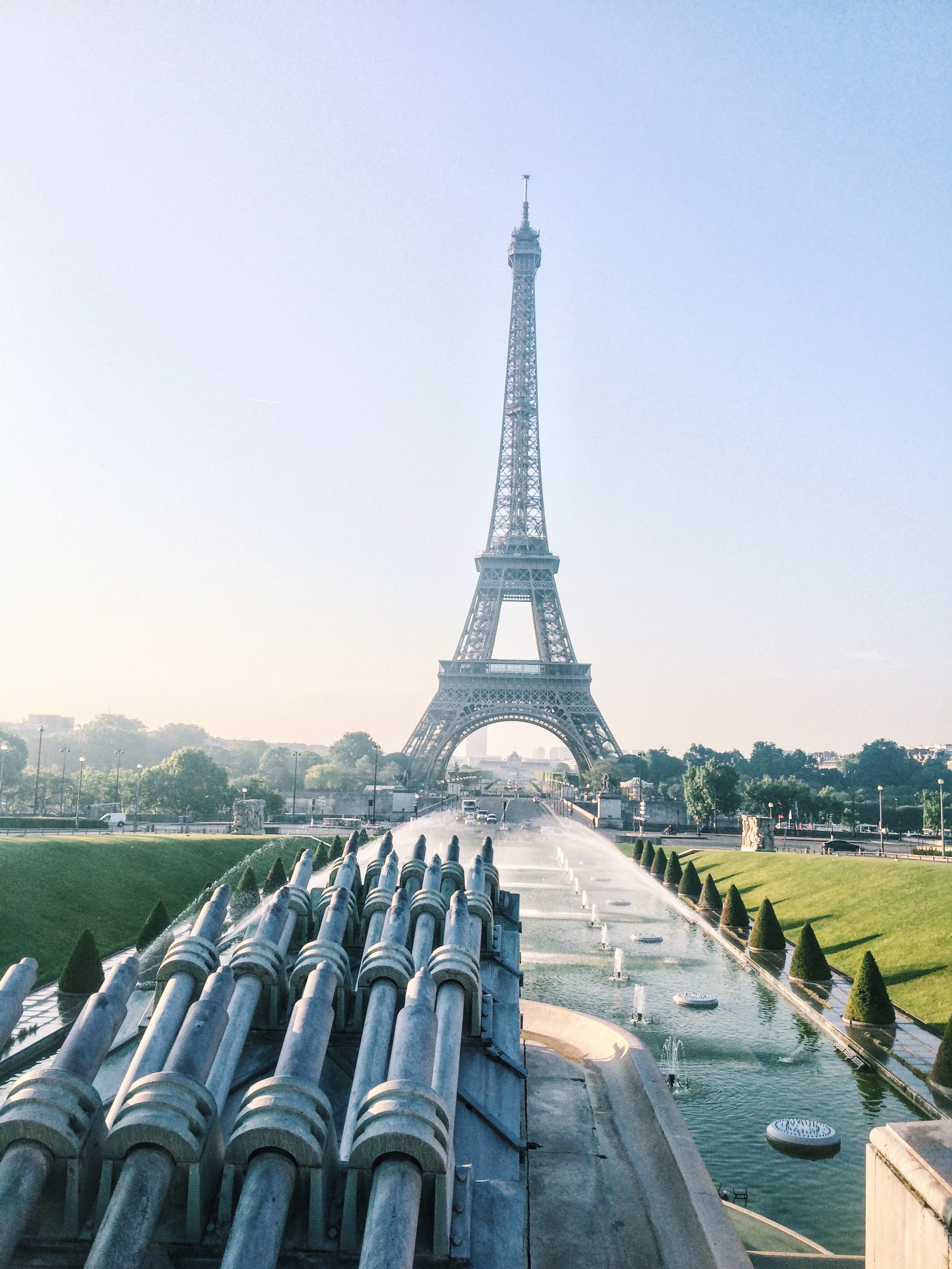 A look at what the Eiffel Tower looks like from Trocadero in May 2016